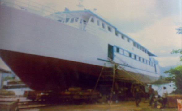 MV Wahai Star, seen on a ship yard in Indonesia